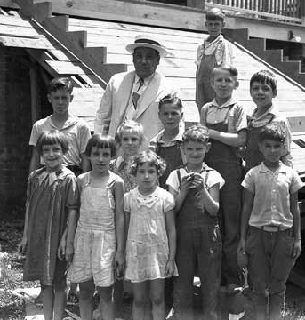 New Orleans, 1938. "A day spent with Mayor Robert S. Maestri on project tour." Mayor Maestri in straw boater stands with group of children. Part of series of WPA photos of New Orleans Mayor Maestri touring Works Progress Administration projects in the city. Individual locations not identified.